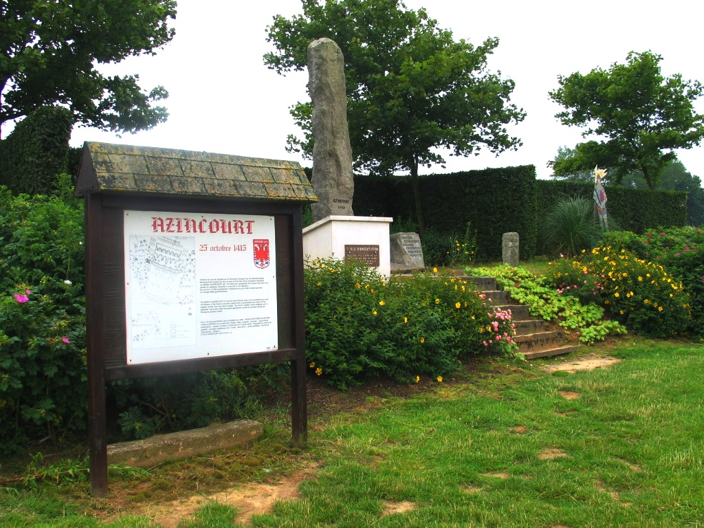 memorial for the battle of Agincourt at Maisoncelle